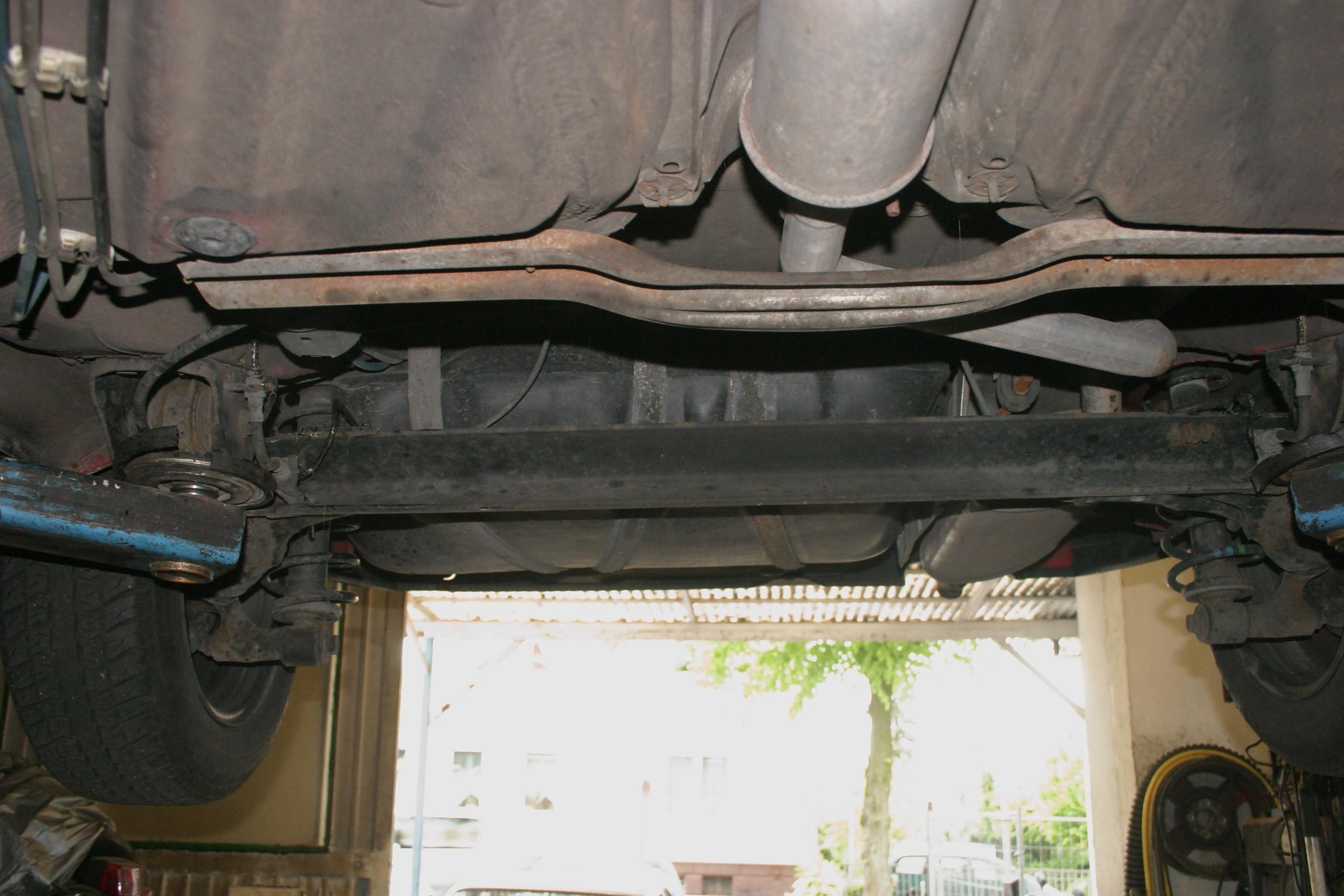 Torsion beam suspension, VW Golf Mk3 Estate 1.6 Joker edition